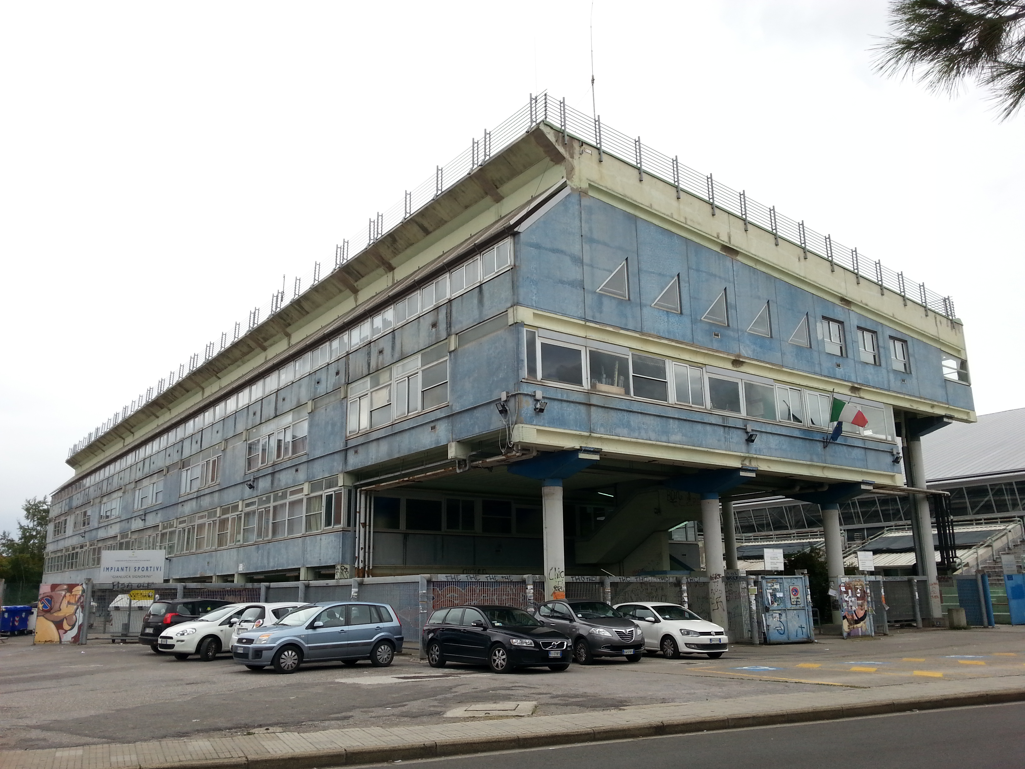 Marchesi complex, school building in Pisa, Italy